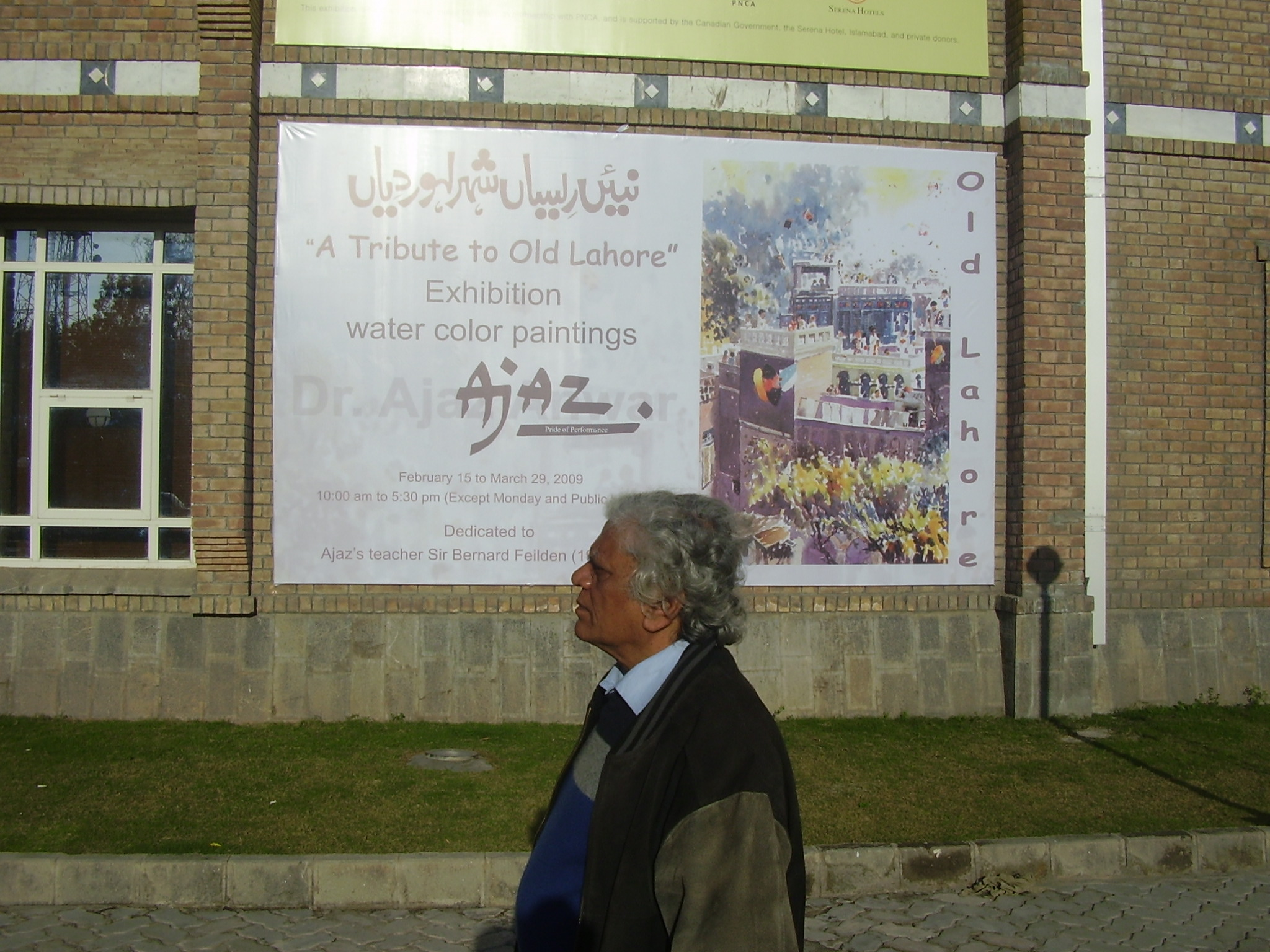 Ajaz Anwar in National Art Gallery Islamabad, where his paintings have been exhibited